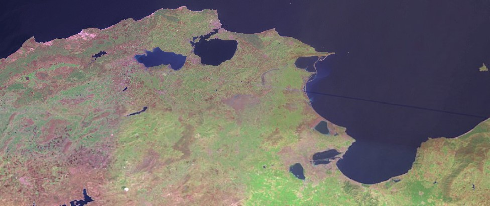 Satellite image of Northern Tunisia (Lakes Tunis, Bizerte, Ichkeul, Ghar El Melh...).